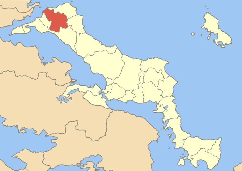 Locator map of Istiea municipality (Δήμος Ιστιαίας) in Euboea prefecture (Νομός Εύβοιας) in Greece.